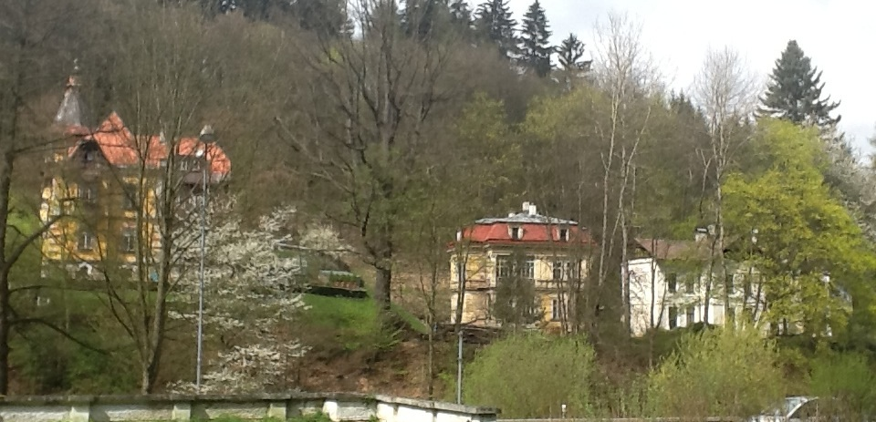 Lázně Kyselka 2014 6